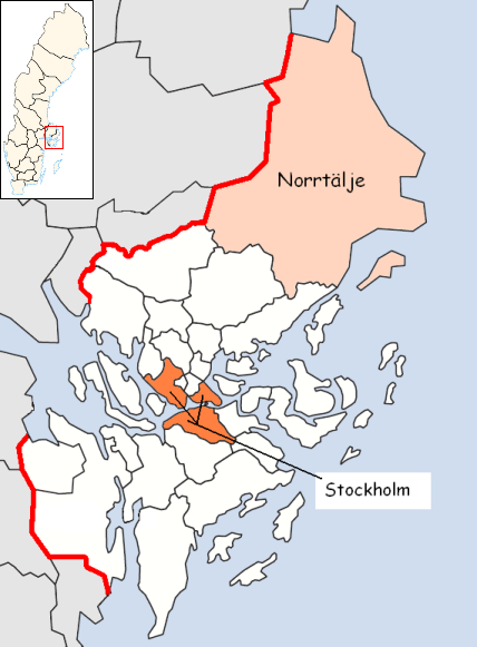 Norrtälje Municipality in Stockholm County Designed by me. Mere outlines are a PD source from